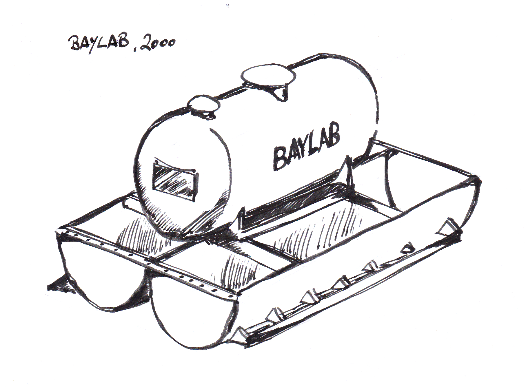 Baylab was an underwater habitat of Morgan Wells. It was deployed in October 2000 in Milford Haven, between Gwynn's Island and Mathews on Chesapeake Bay at a depth of 15 feet (4.57 m).